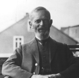 Photo of Oswald Duda